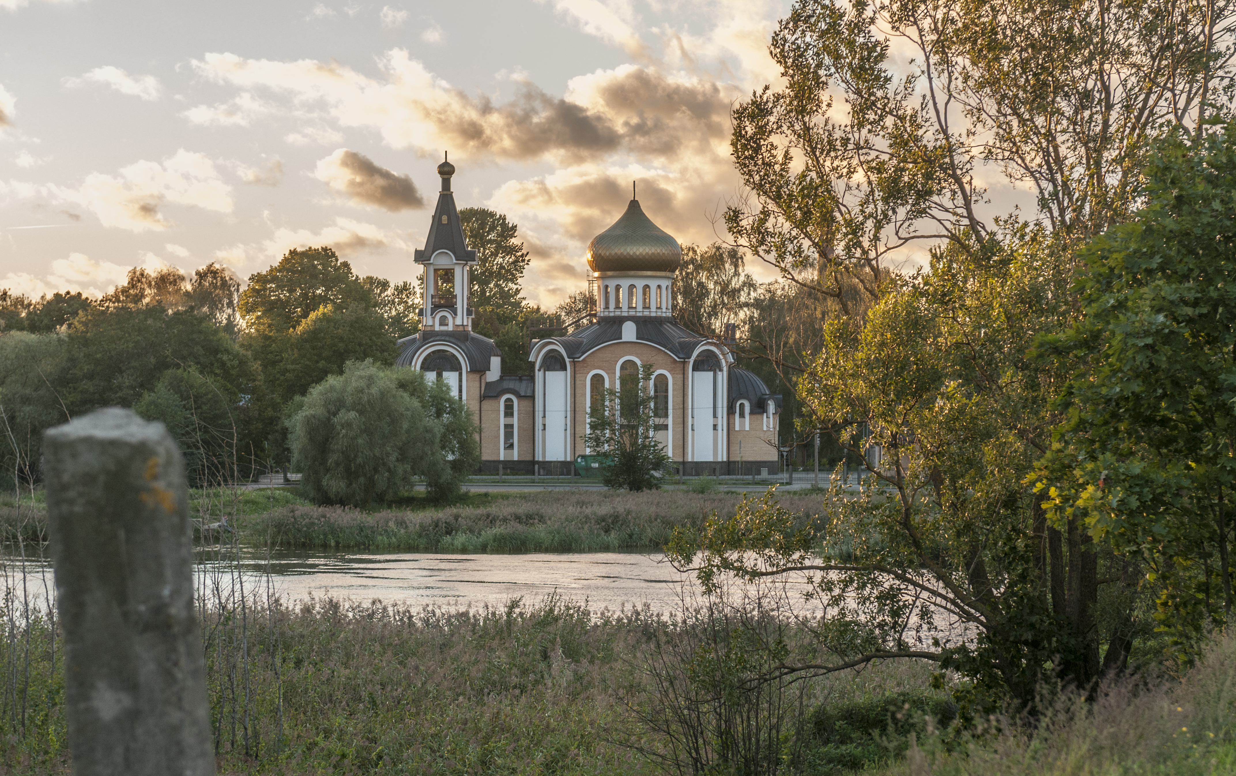 Daugavgrīva, Riga, Latvia